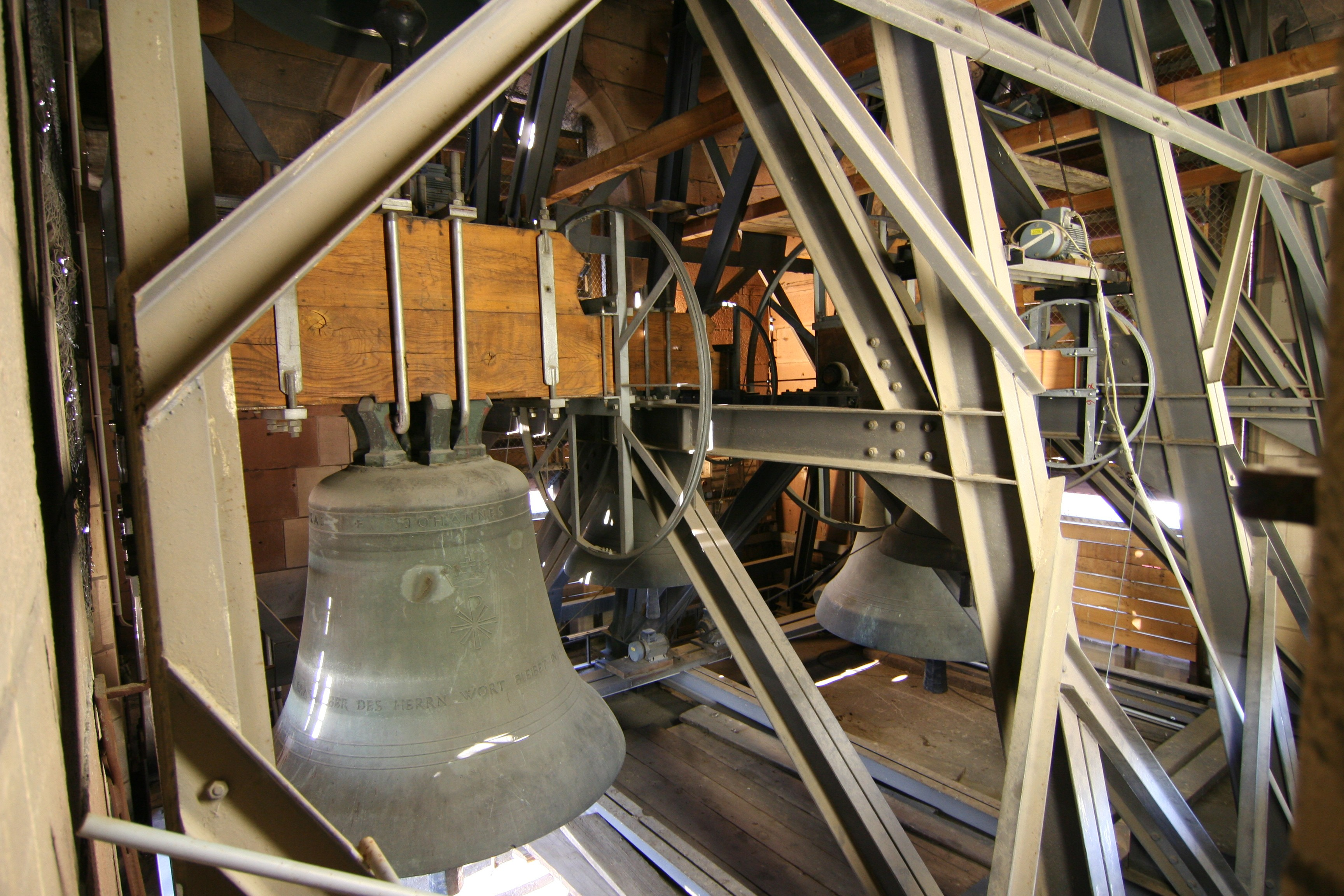 The belfry of the Kilianskirche in Heilbronn